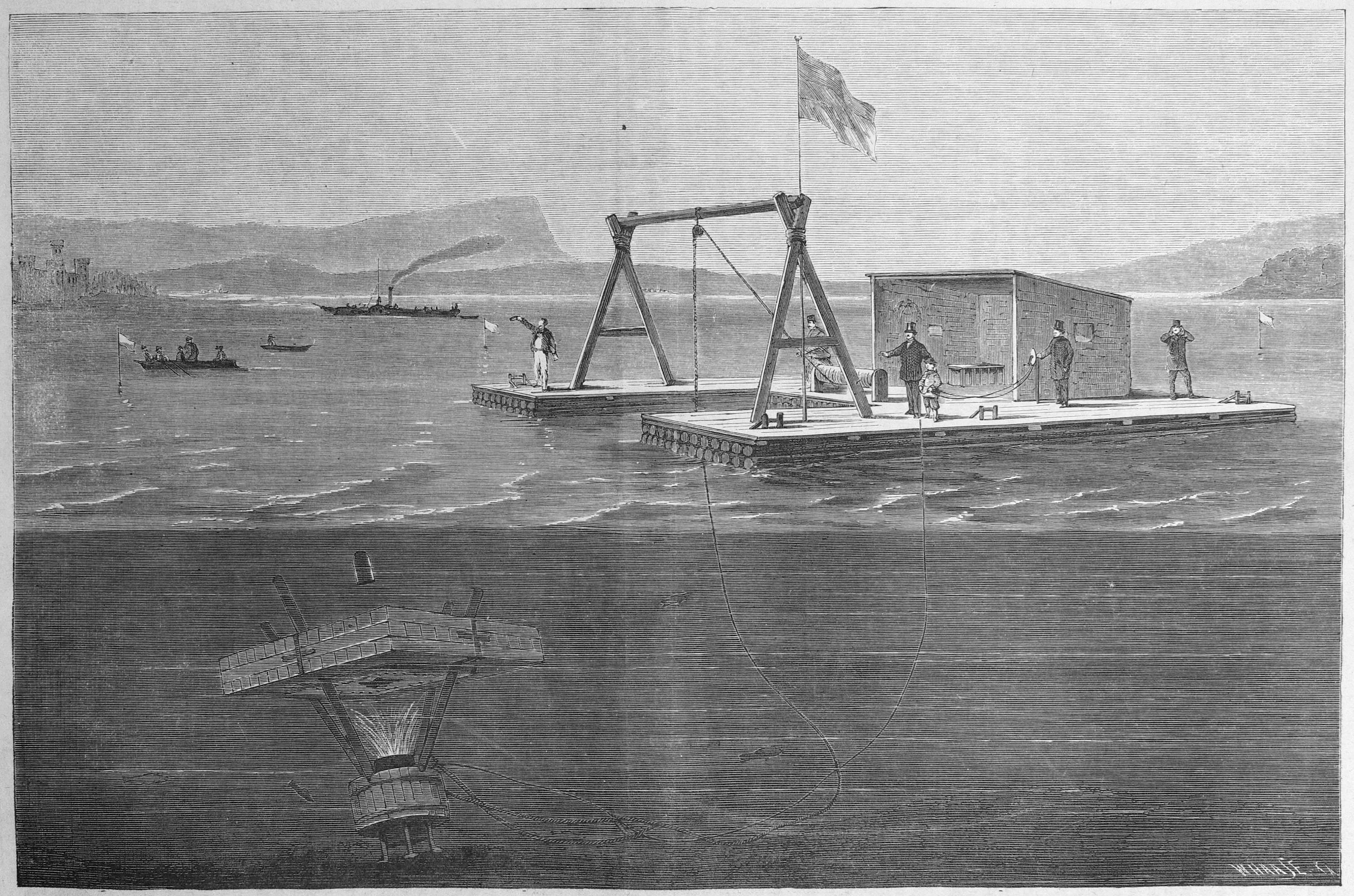 caption: "Wilhelm Bauer’s unterseeischer Schießversuch auf dem Starnberger See. Nach einer Originalzeichnung des Erfinders."